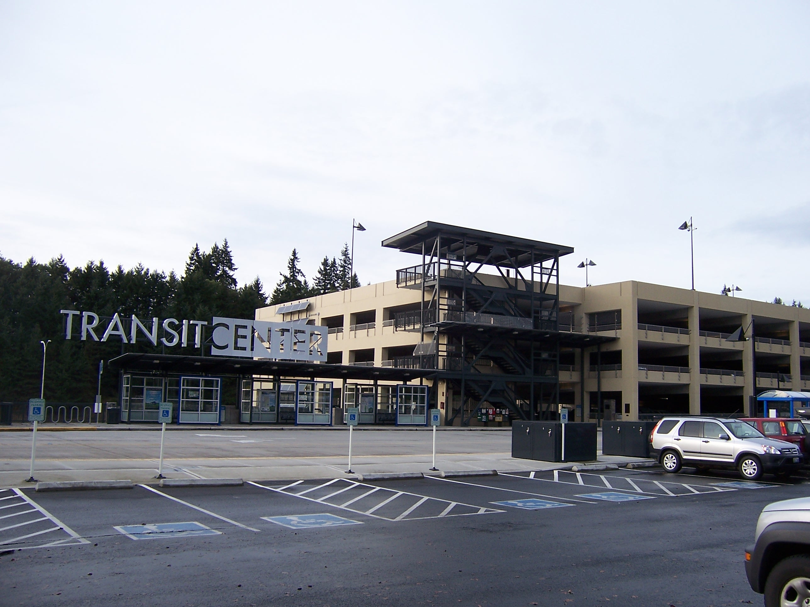 Mountlake Terrace Transit Center in Mountlake Terrace, WA, USA, operated by Community Transit. Bus bays are in the foreground with the parking garage towards the back and right.